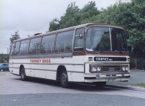 Leyland Leopard with Duple Dominant bodywork, in Merseyside